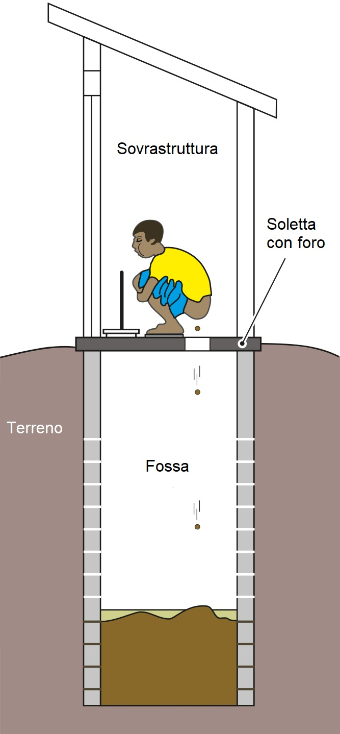 Schematic of a simple pit latrine